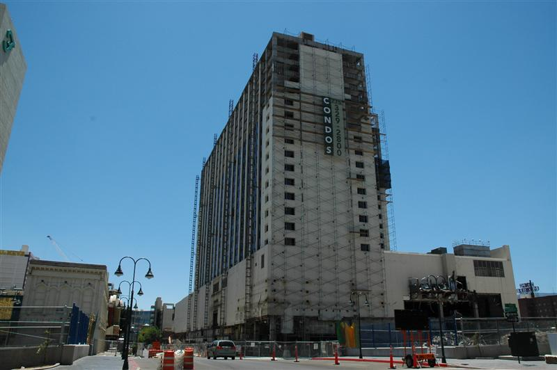 Being converted into condominiums.